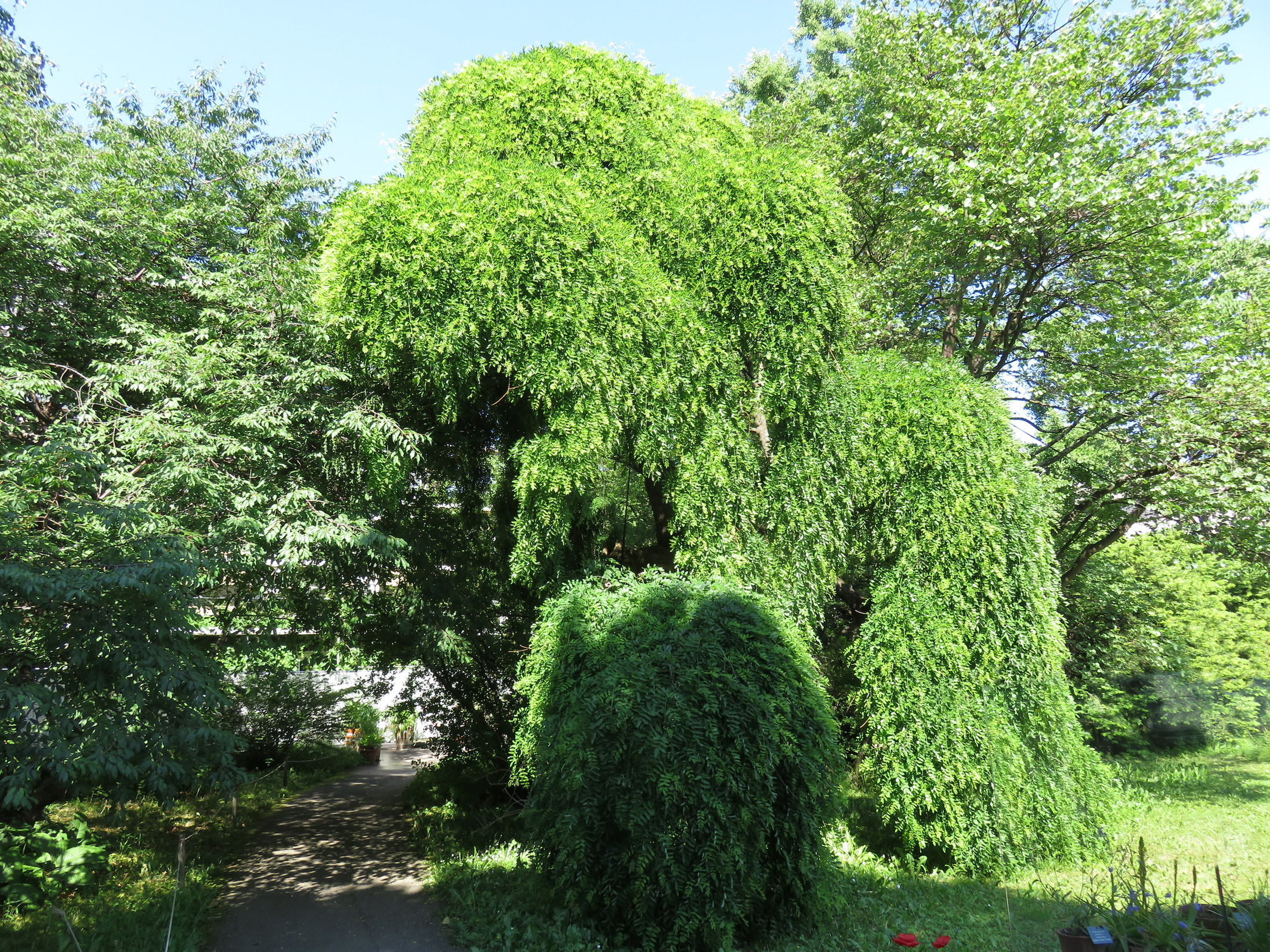 Sophora japonica 'Pendula' in the botanical garden of Basel (CH)